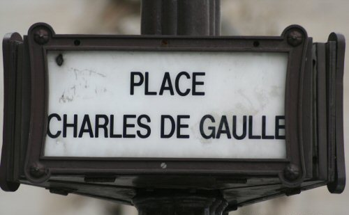 Place Charles De Gaulle Paris (France) photo token by M.GASMI.